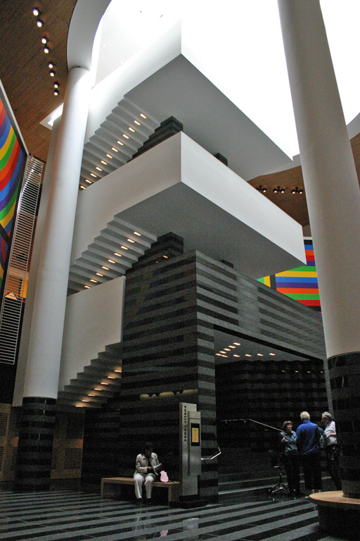 San Francisco Museum of Modern Art